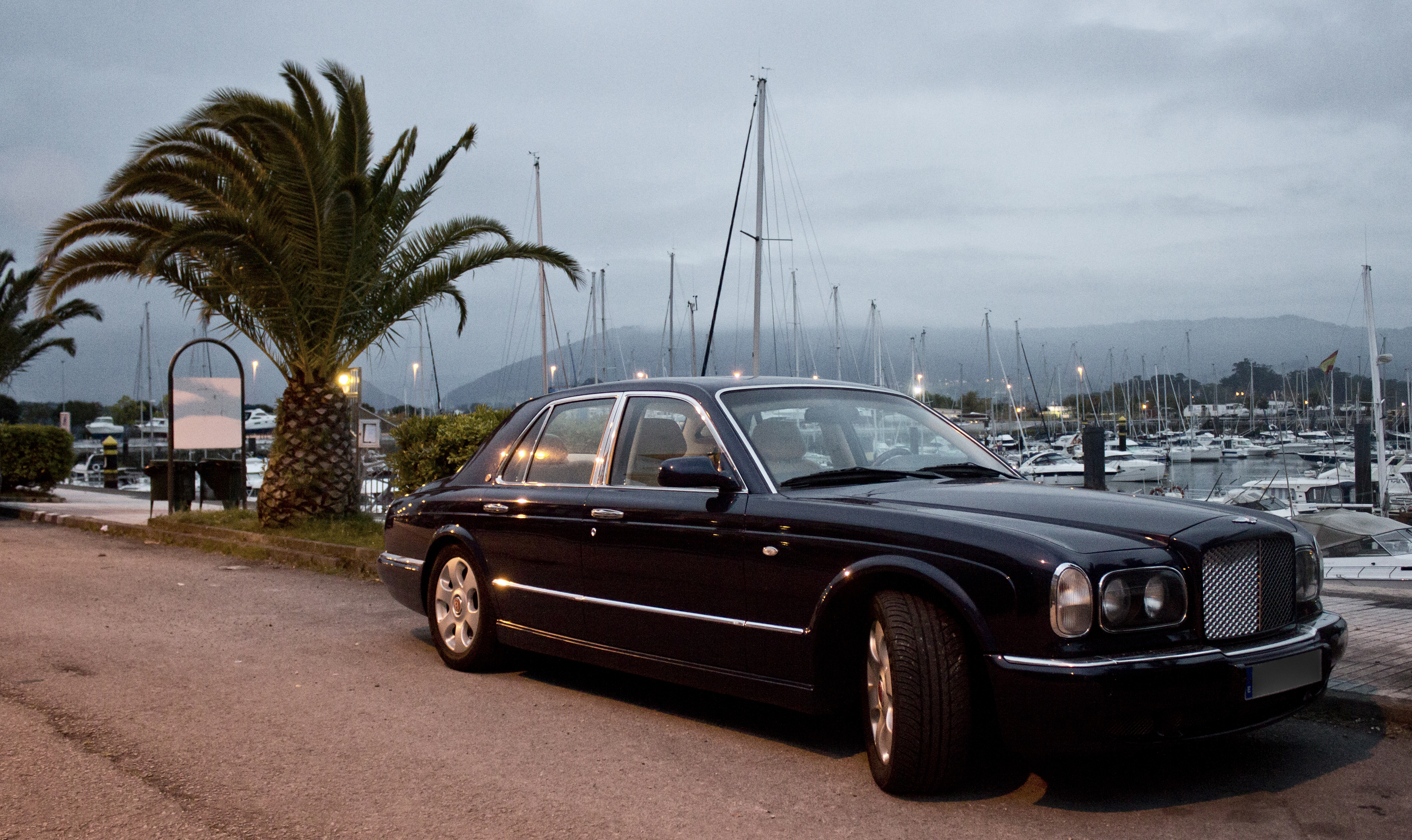 2003 Bentley Arnage R